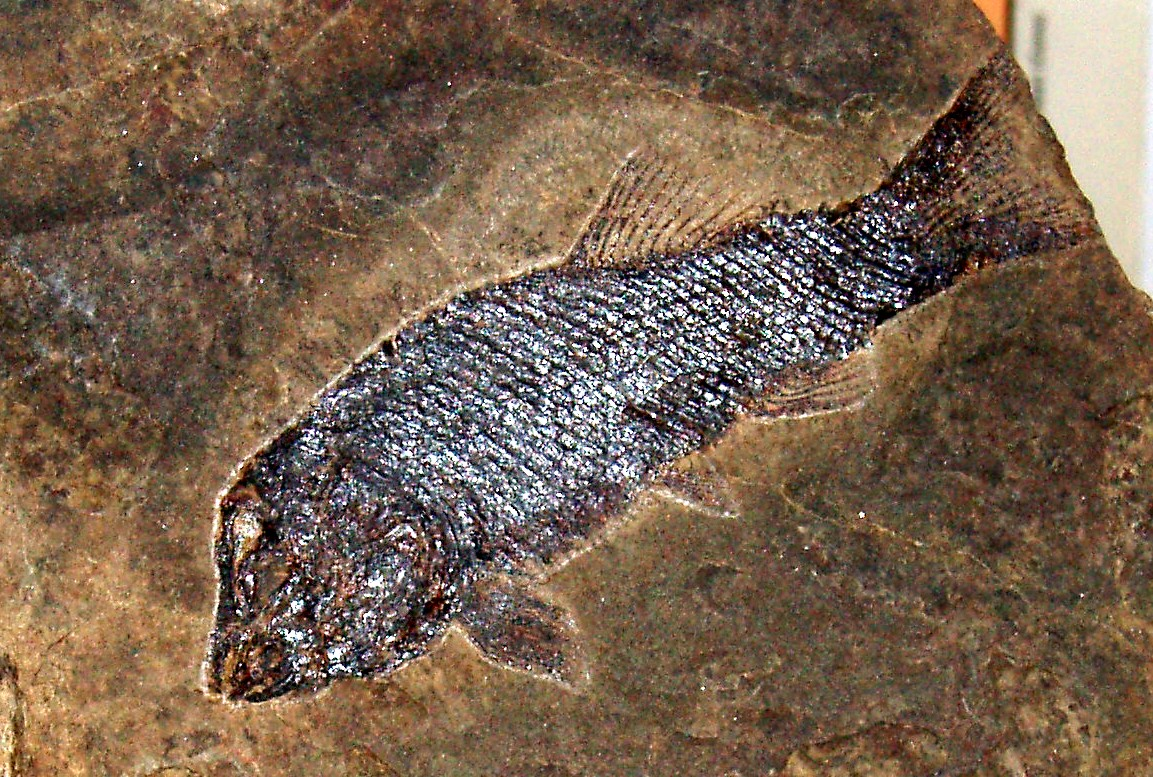 Fossil of Aetheodontus besanensis, an extinct fish